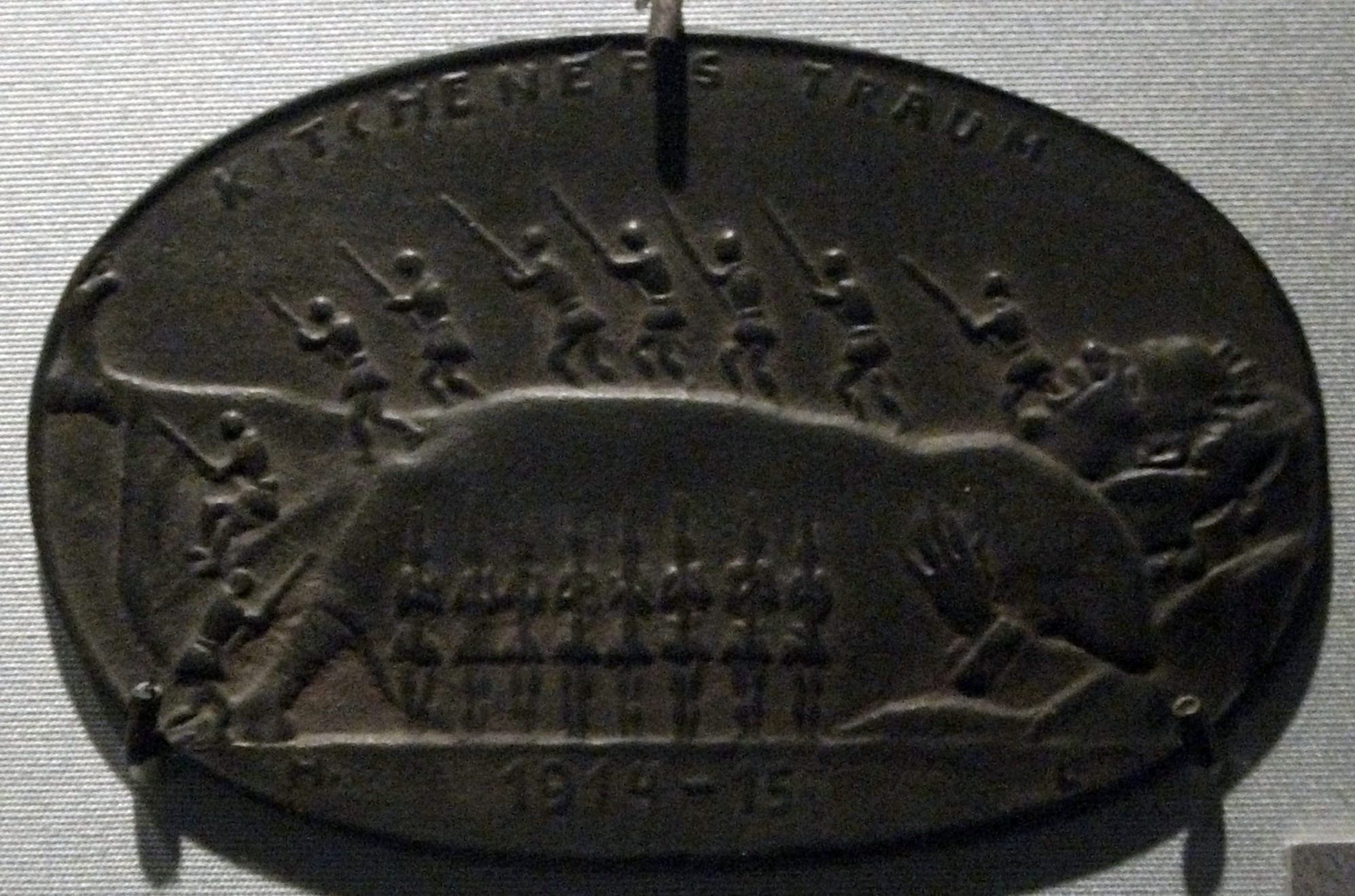 British Museum exhibition: "The other side of the medal: how Germany saw the First World War", 9 May – 23 November 2014